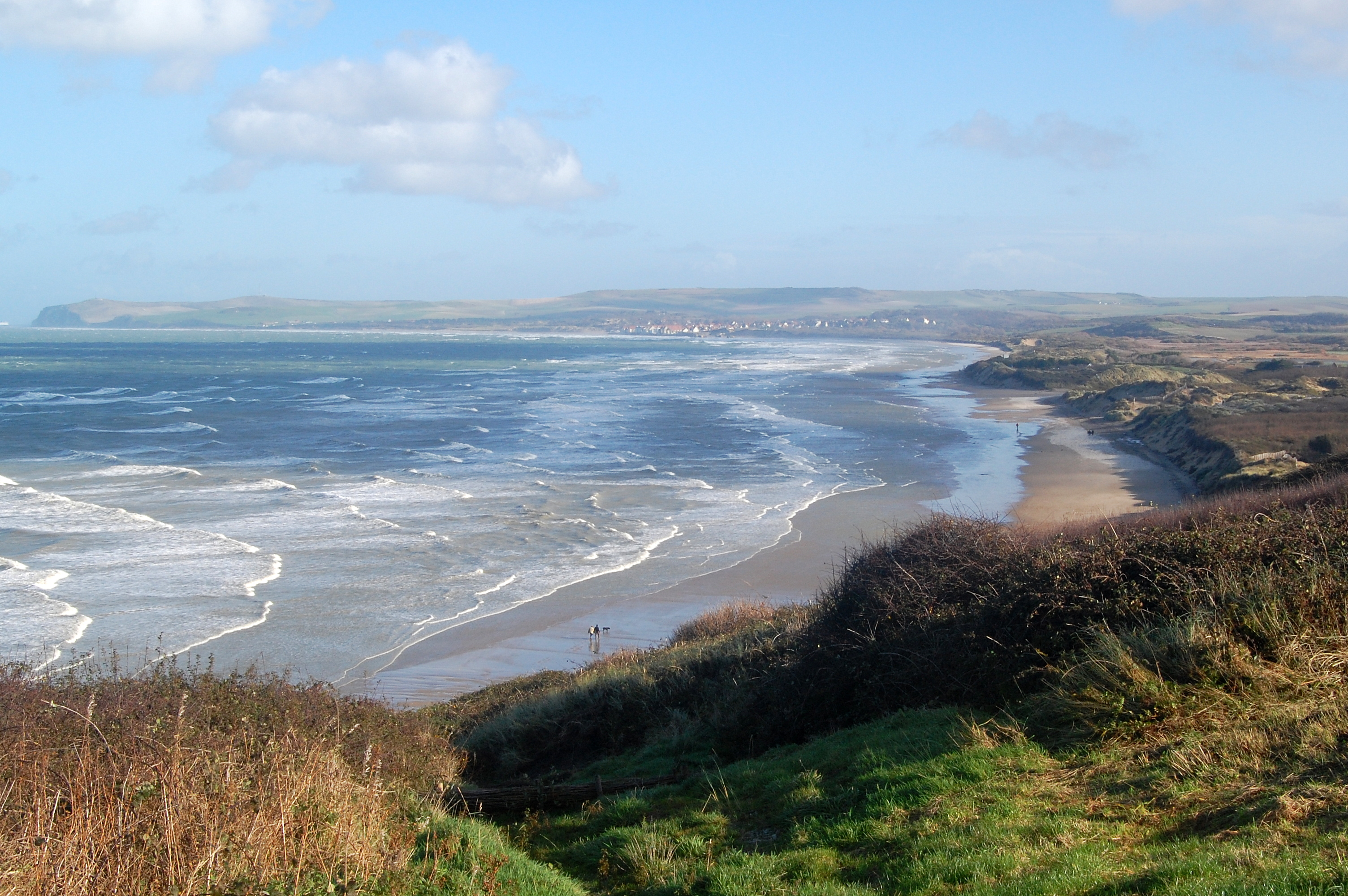 Cote d'Opale between the two capes, Pas de Calais, France